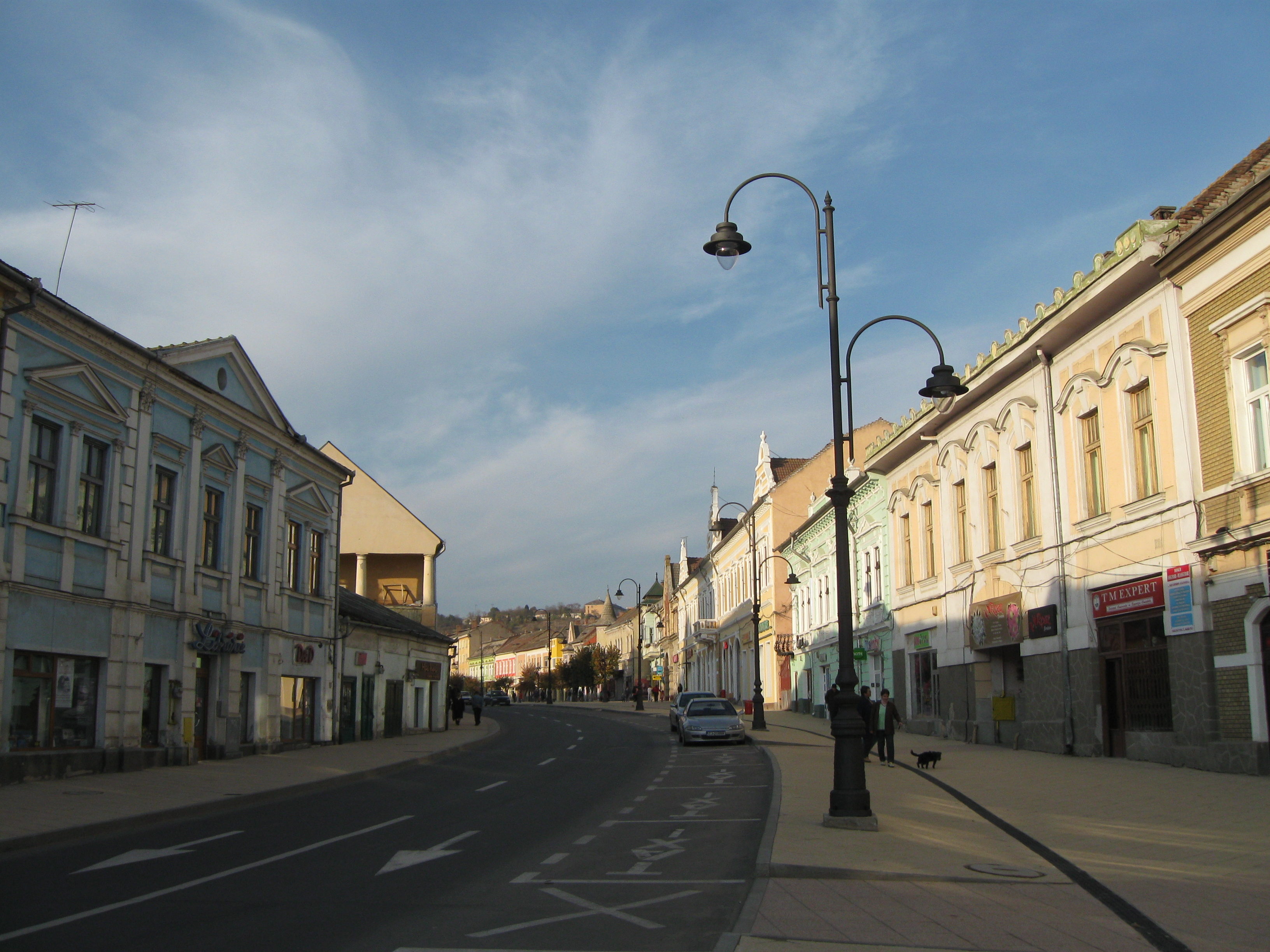 Main street in Turda, Romania